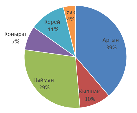 Tribal composition of Middle zhuz kazakhs in bedin of 20 century